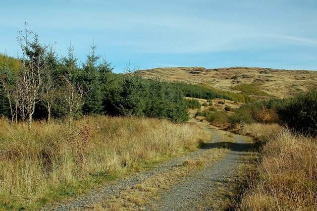 Towards Kirriemore Hill Looking along a forestry road in the Galloway Forest, with Kirriemore Hill in the background. Viewed in mid-Octotober.